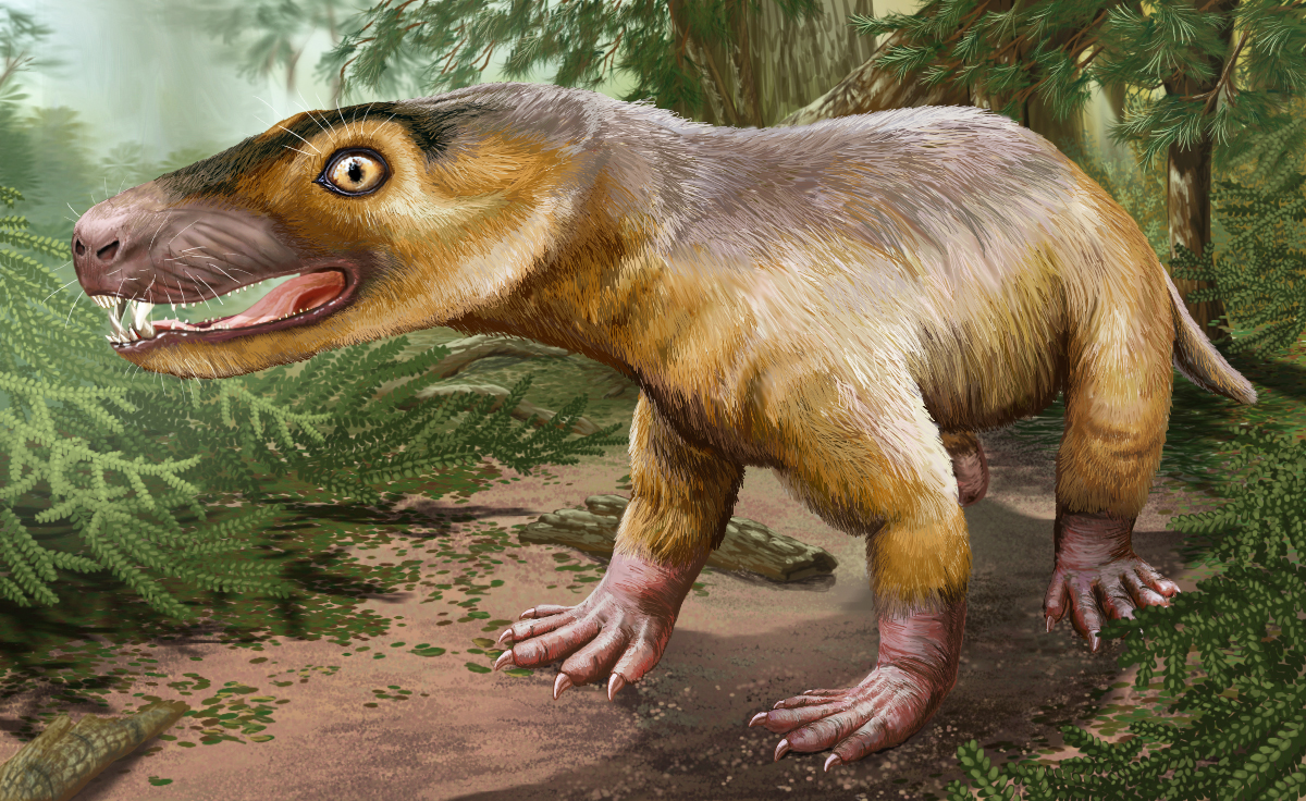 Life restoration of Karenites ornamentatus. Based on figures 25-27 of "Permian and Triassic therocephals (Eutherapsida) of Eastern Europe" by M. F. Ivakhnenko (Paleontological Journal 45 (9): 981-1144).